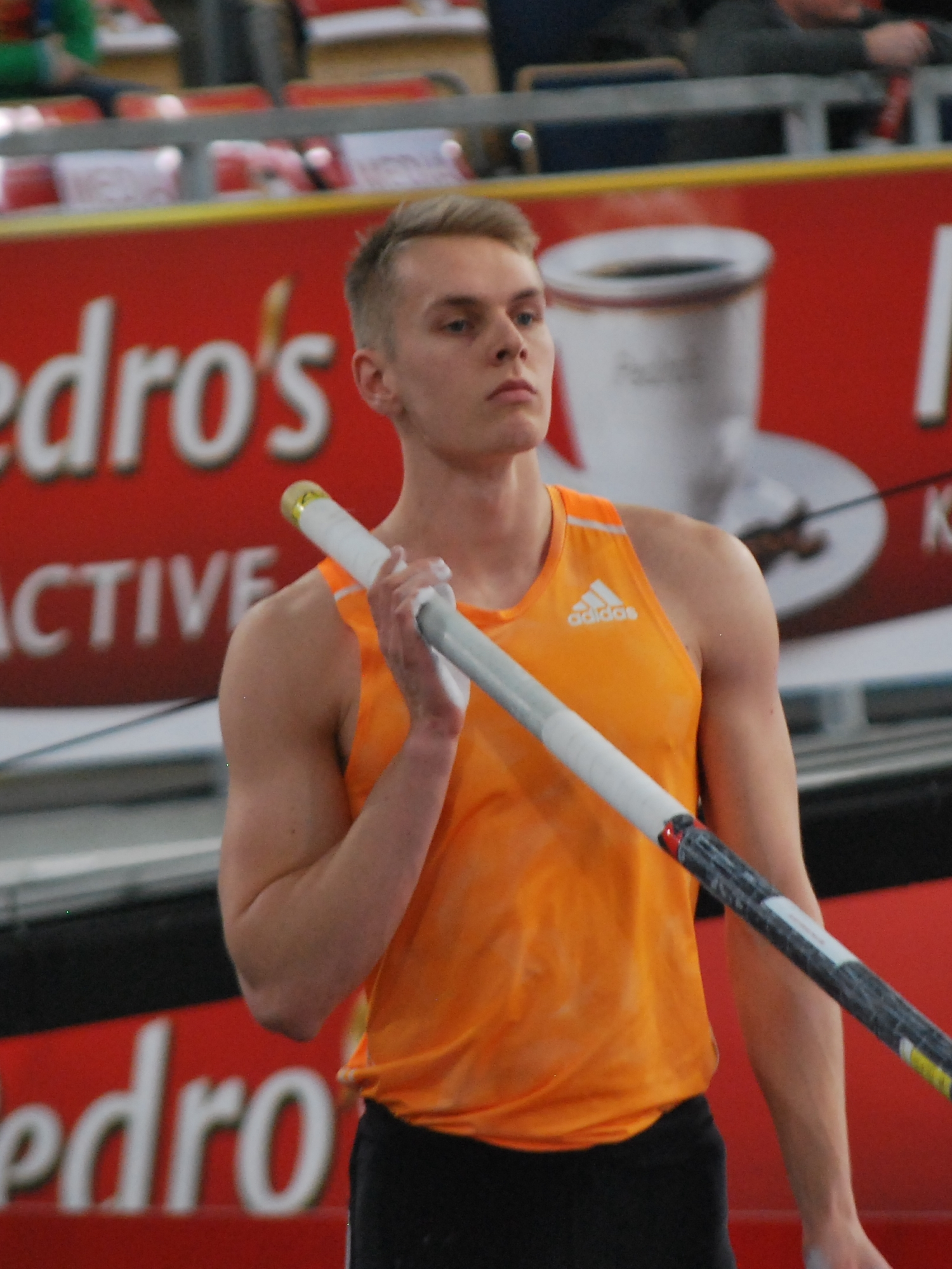 Pedros Cup 2015 Łódź, Robert Sobera, pole vaulter from Poland